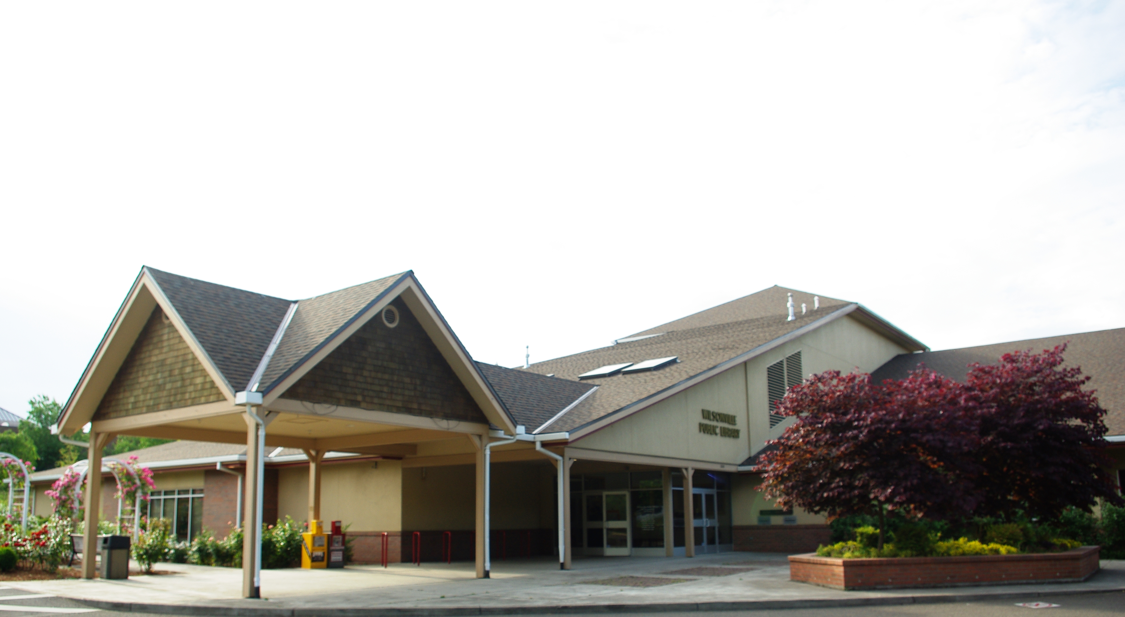 Library in Wilsonville, Oregon, USA.